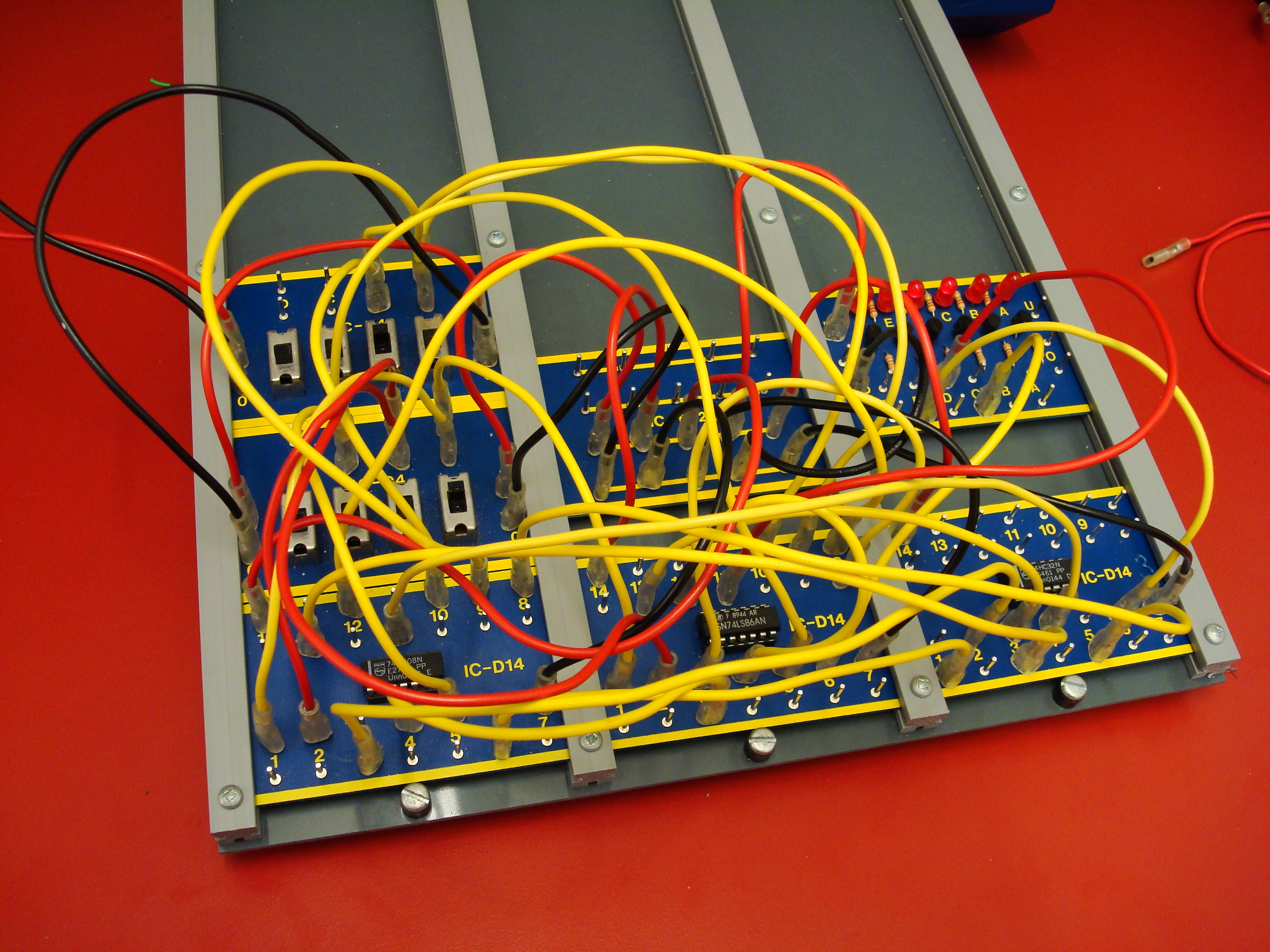 Two bit adder from a computer laboration